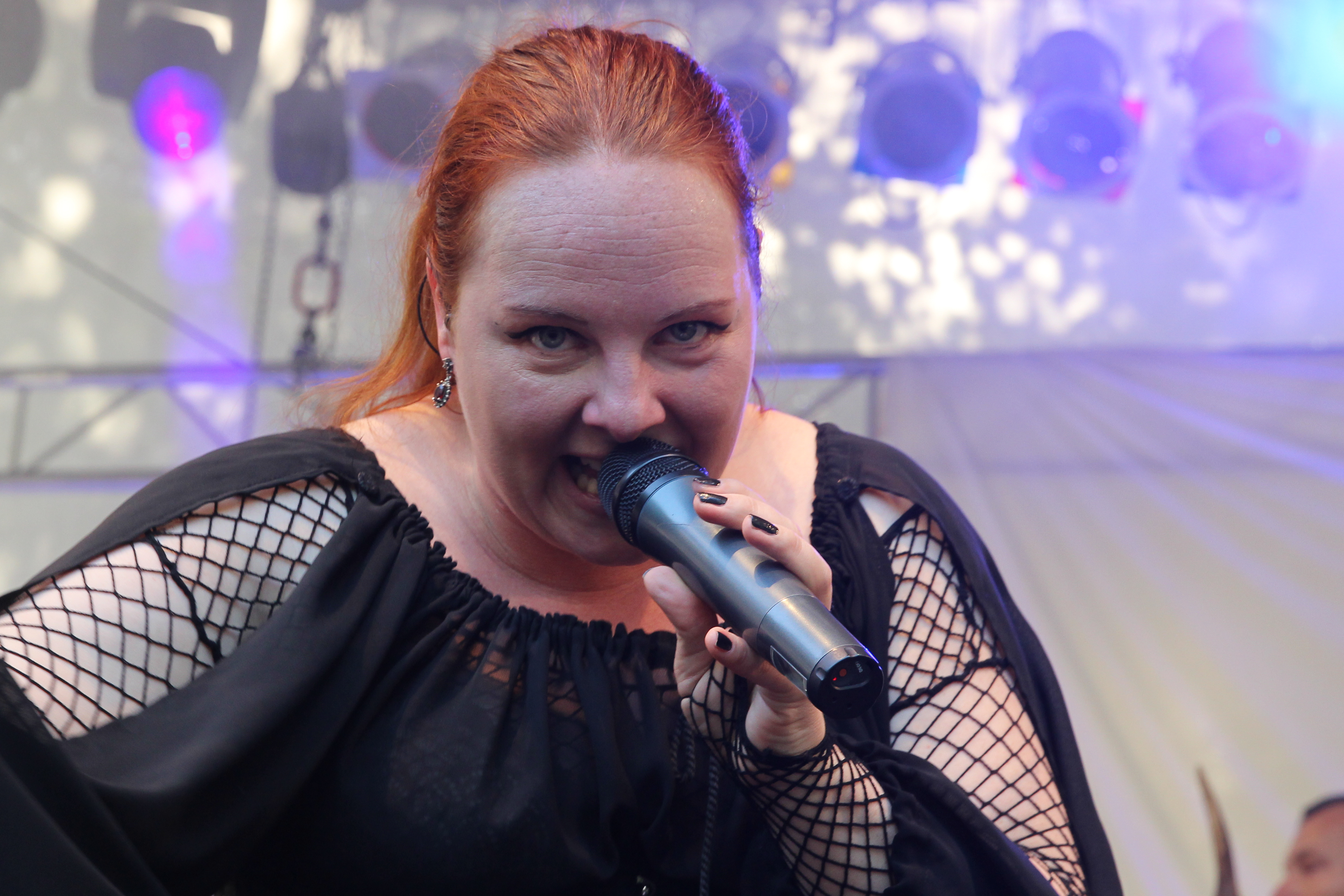 Wolfenmond at the Wave-Gotik-Treffen 2014.